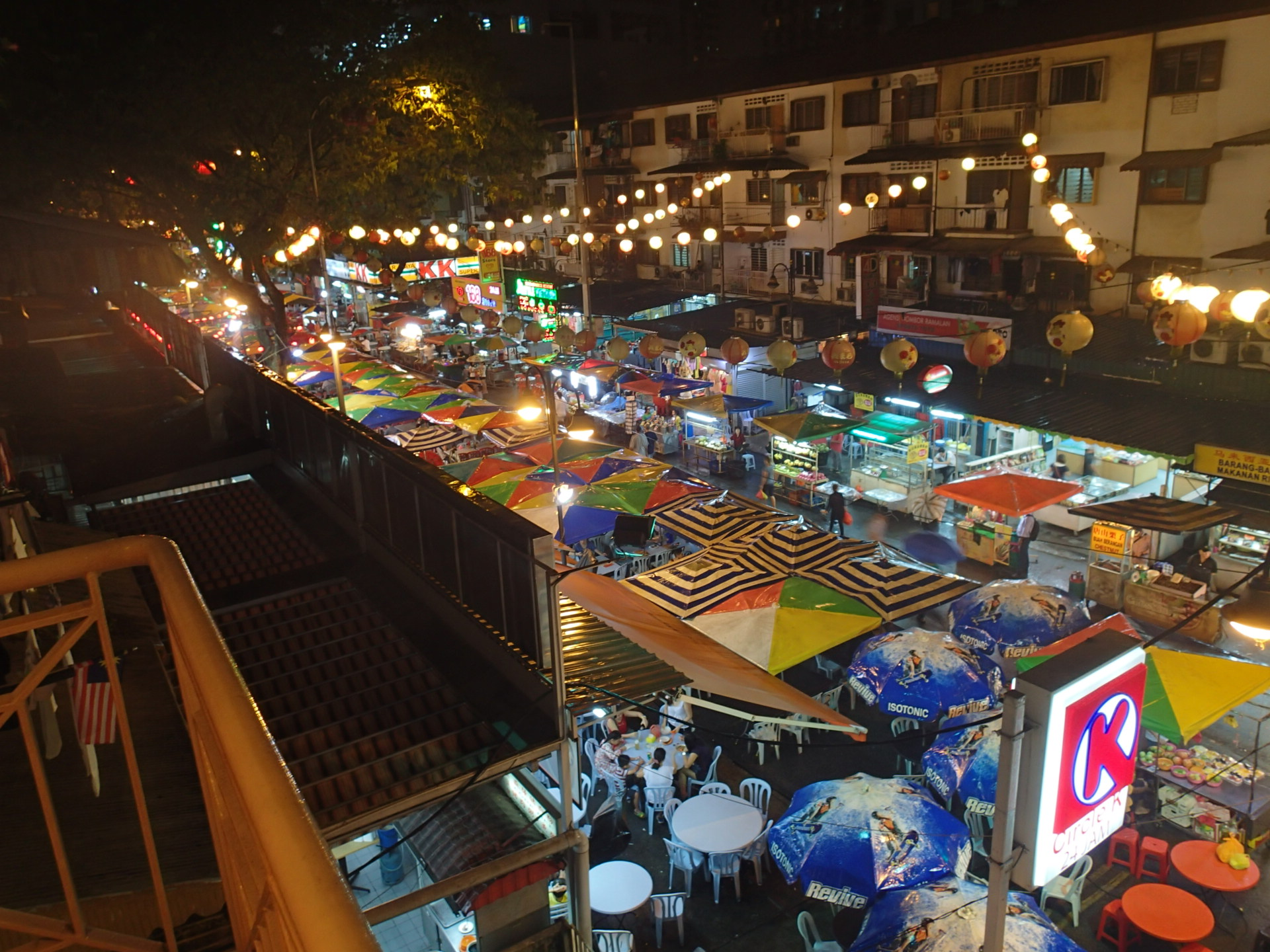 Jalan Alor Food Street, KL